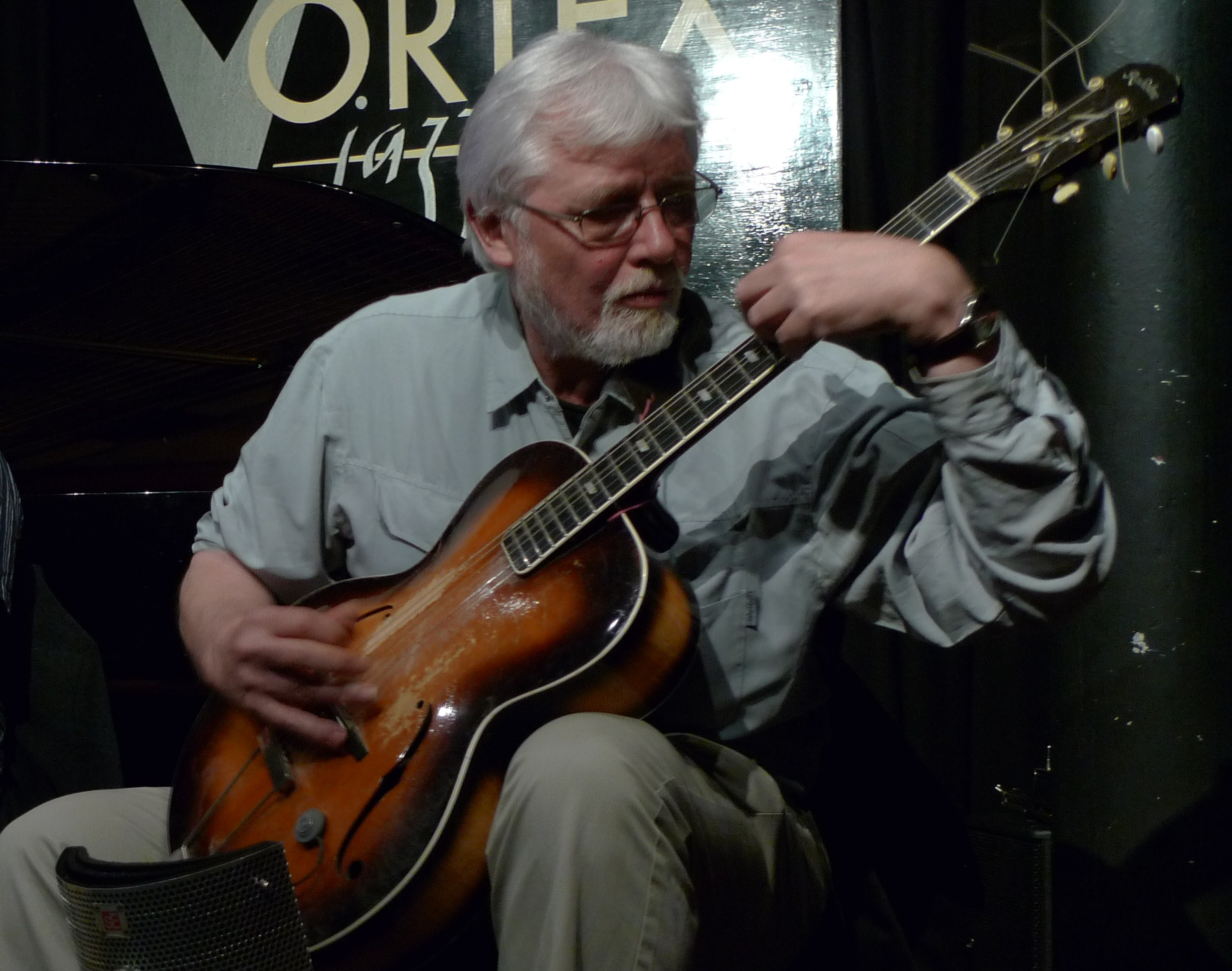 John Russell performing with Mopomoso at the Vortex Jazz Club, London on 2010-04-18.